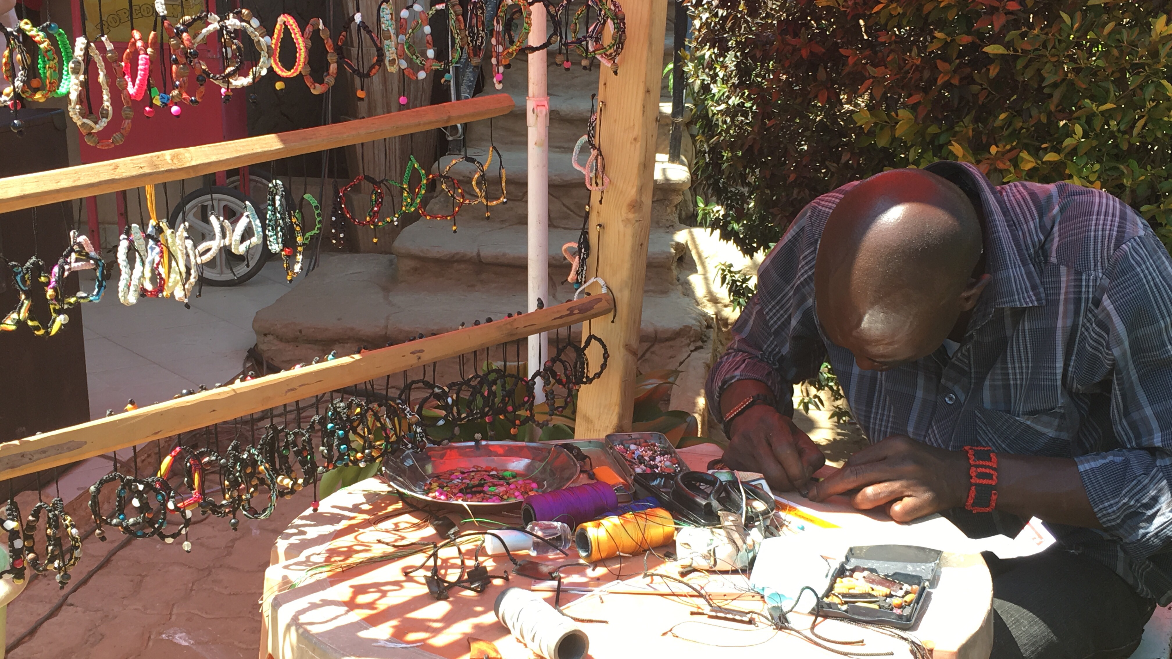 a Man who is making string This is an image of "African people at work" from Democratic Republic of the Congo